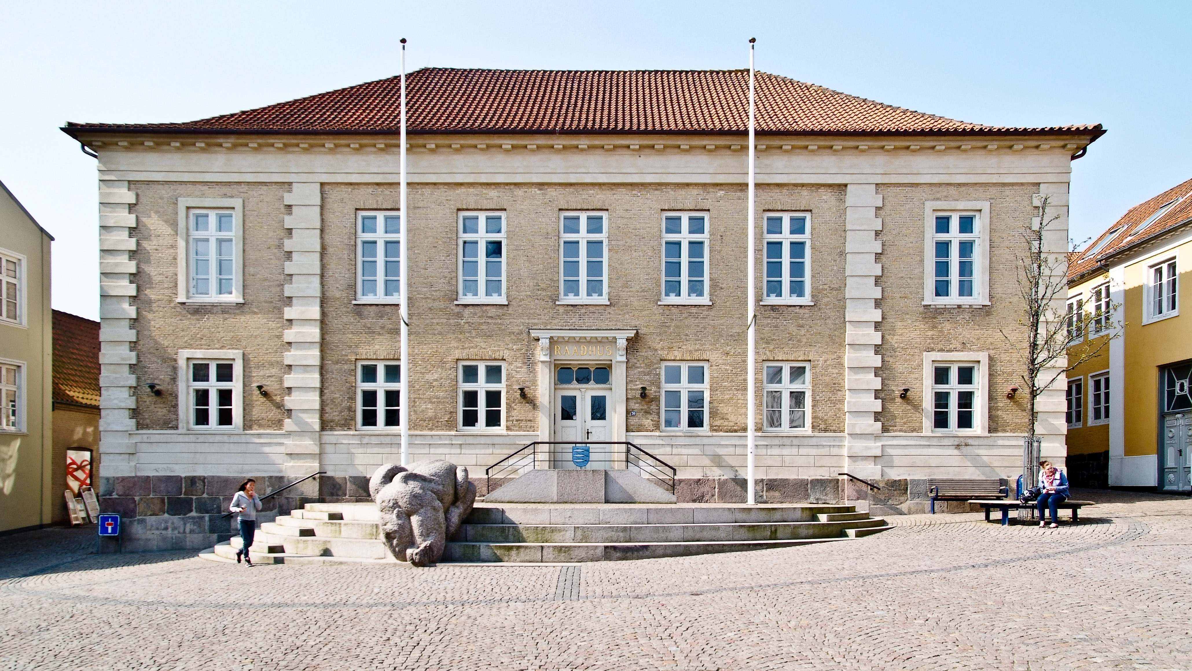 Town hall of Aabenraa, Denmark